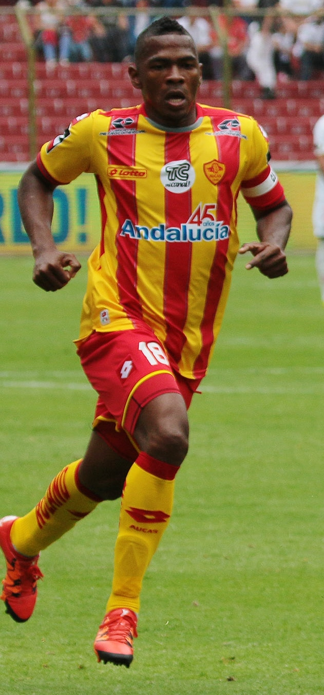 AlexBolaños